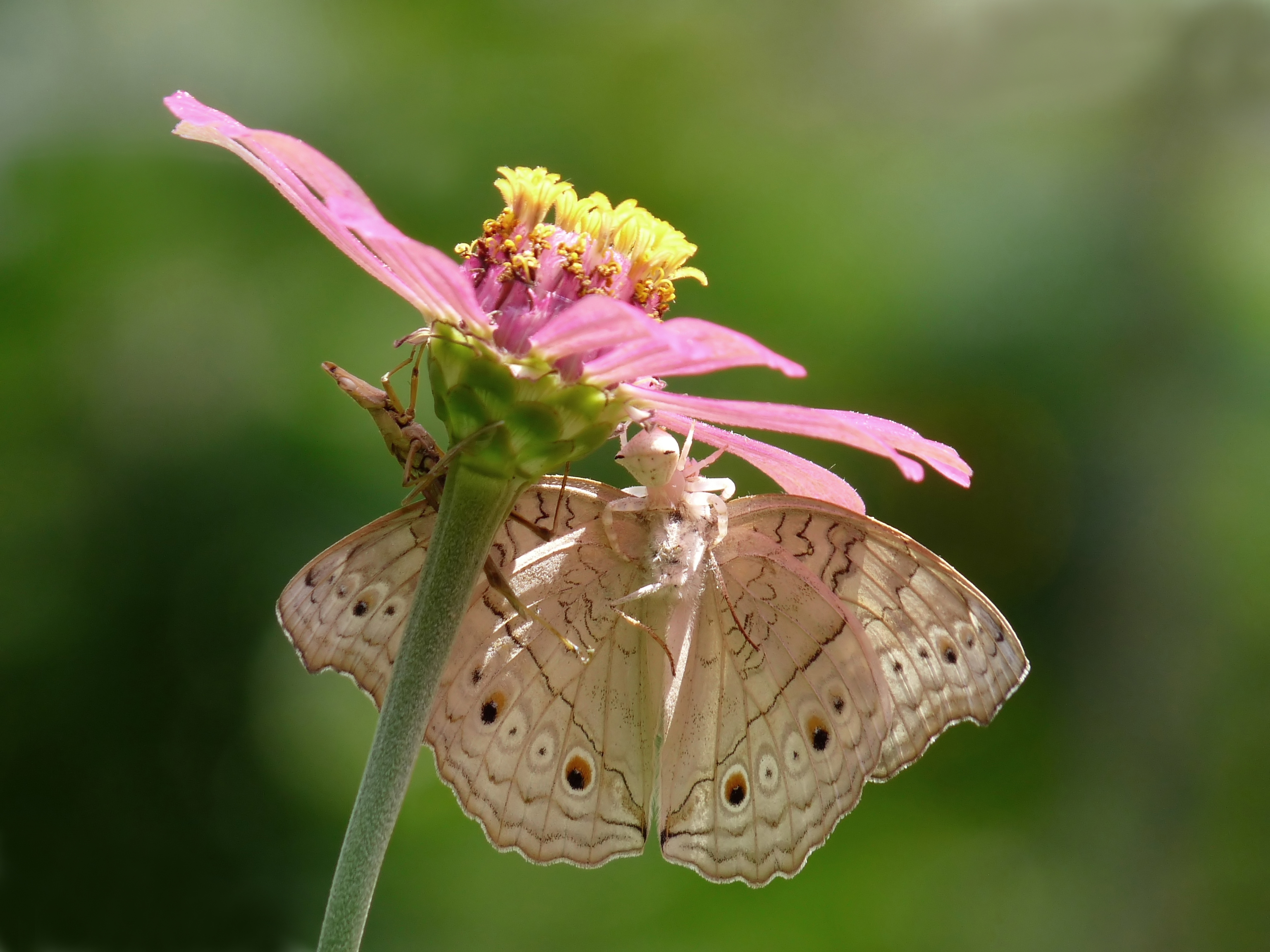 Junonia atlites, Grey Pansy, is a species of Nymphalidae butterfly found in South Asia. Here it is feeded by a Crab spider (Thomisidae).